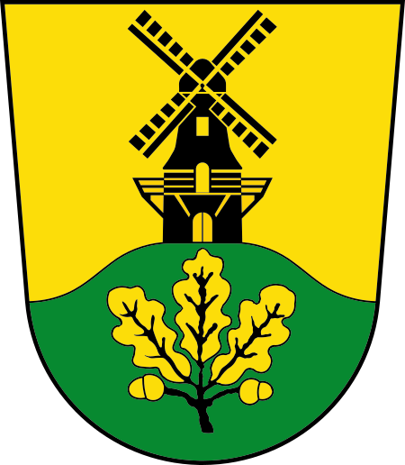 Coat of Arms of Hittbergen First upload in de-wp: Mirko2211 (15:14, 30. Mai 2007)